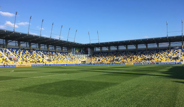 DAC Arena